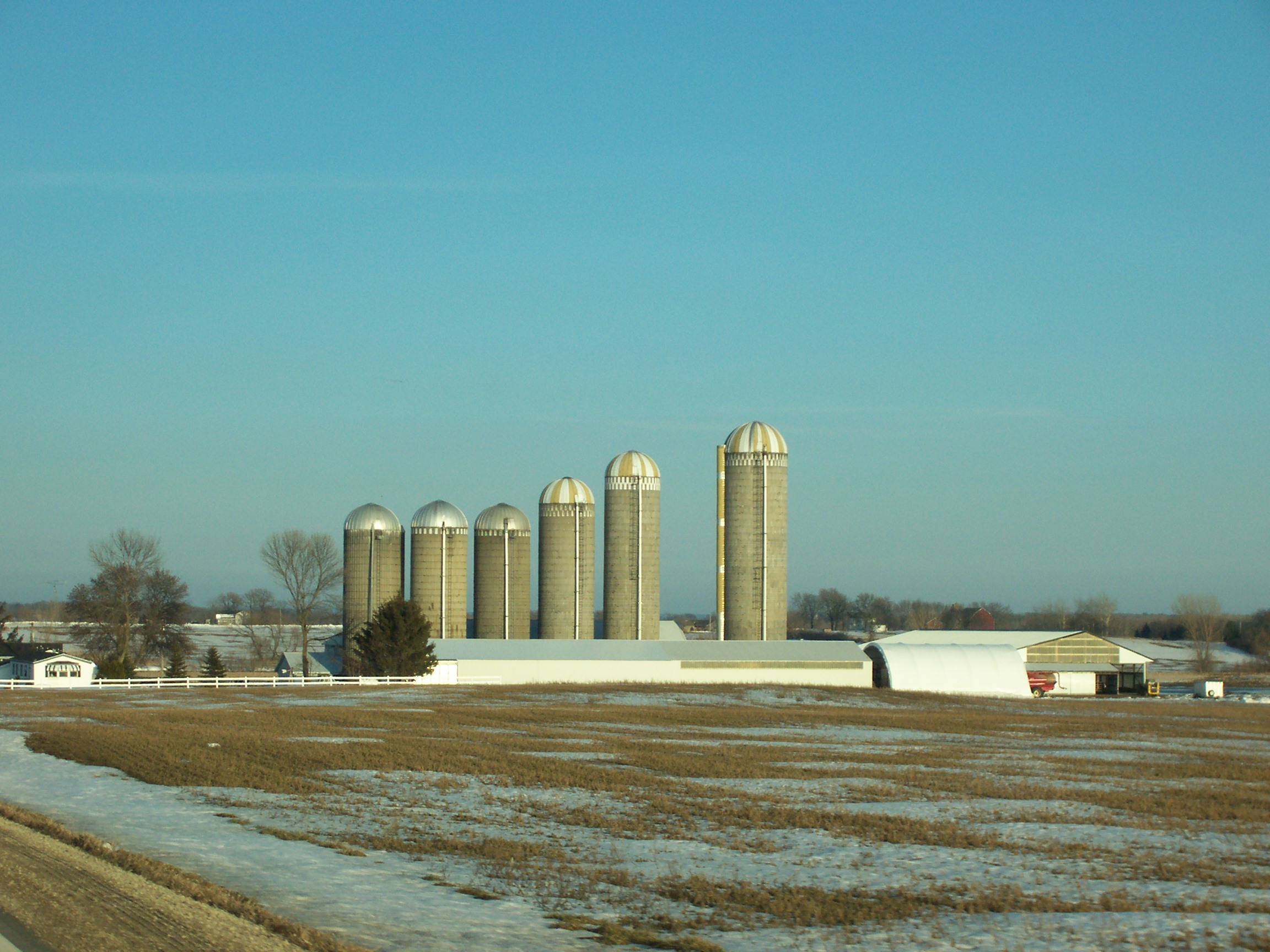 A farm in Fond du Lac County, Wisconsin, USA, near Brandon. Taken March 11, 2007 by myself.